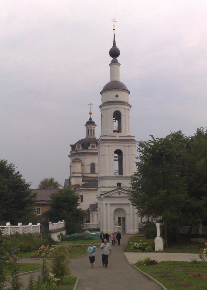 Maloyaroslavets. Nikolaevsky Chernoostrovsky Monastery